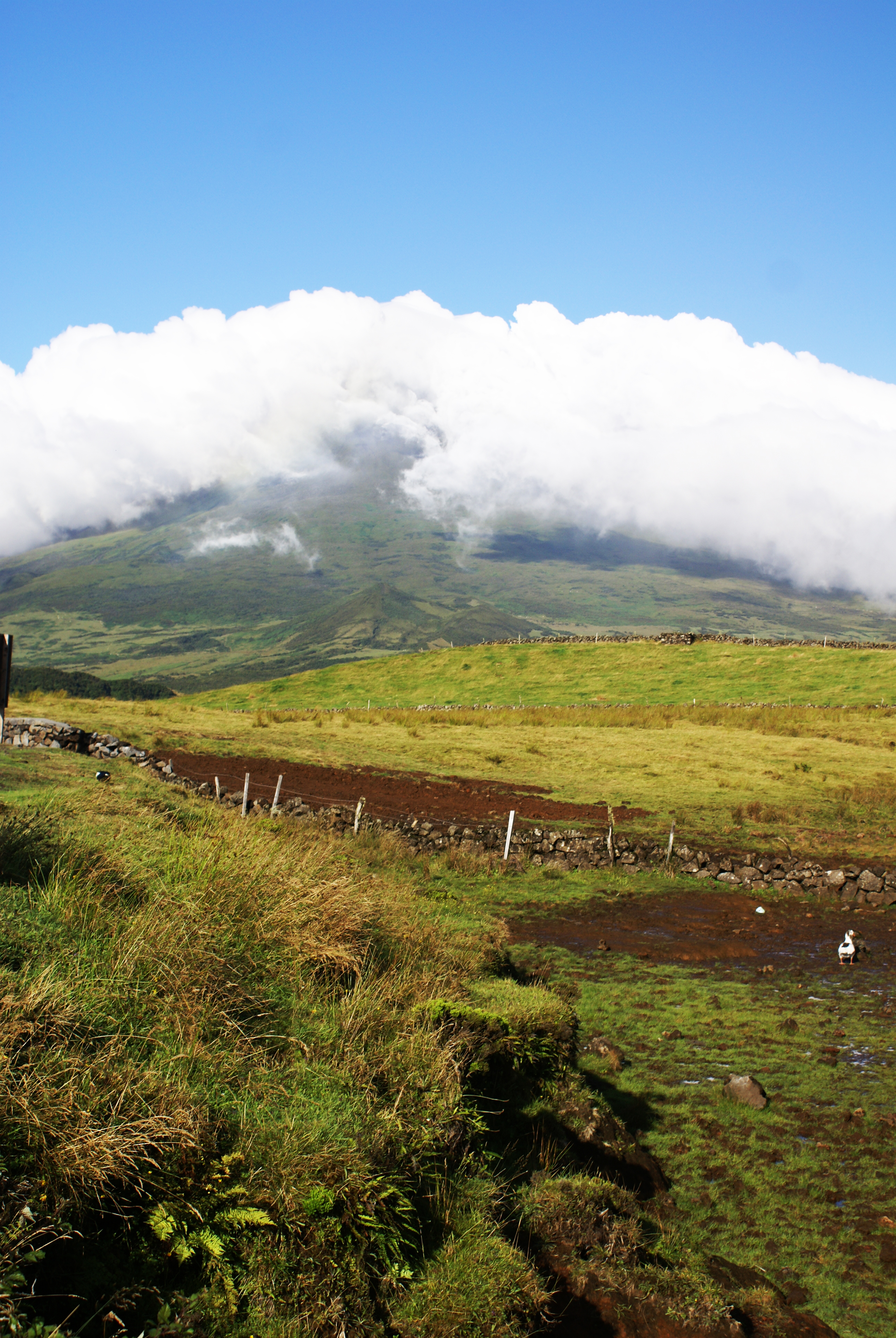 From Lagoa do Capitão, a vista of the mountain of Pico, São municipality of São Roque do Pico, island of Pico, Azores (Portugal)